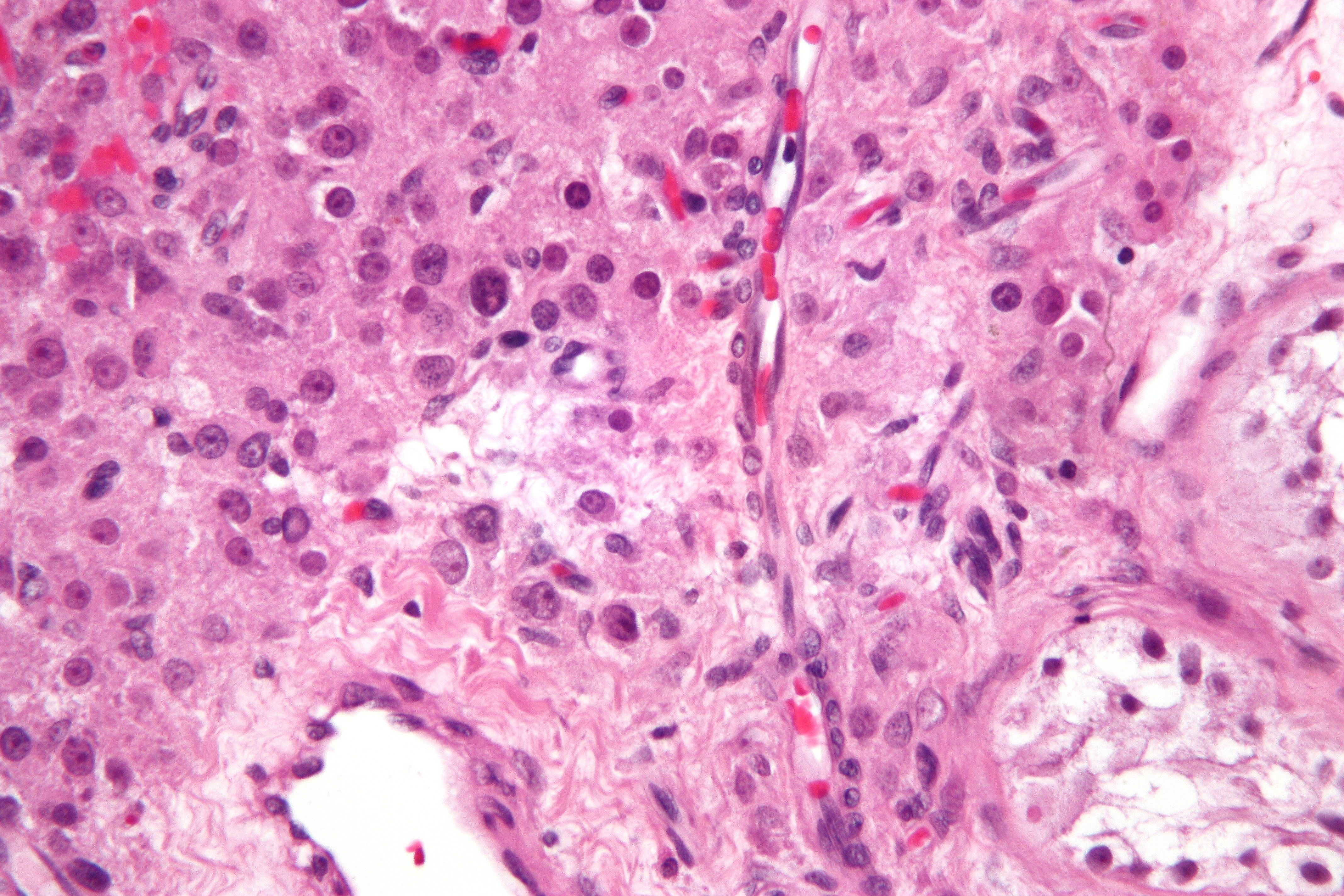 High magnification micrograph of a Leydig cell tumour of the testis. H&E stain. Leydig cell tumours fall in the sex cord-stromal tumour subgroup of testicular tumours. Leydig tumour shown has: cells with moderate nuclear size variation, and cells with: prominent round central nucleoli, and an eosinophilic vacuolated cytoplasm. Classically, Leydig tumours have Reinke crystals, cylindrical crystalloid eosinophilic cytoplasmic bodies; these are not apparent in the micrograph. See also Image:Leydig_cell_tumour1.jpg - low magnification view. Image:Leydig_cell_tumour2.jpg - intermediate magnification view.